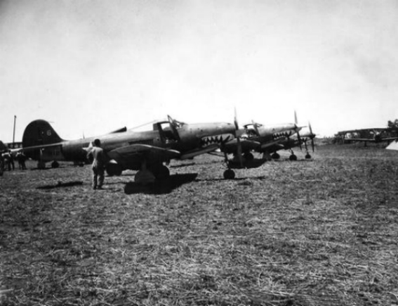 Five U.S. Army Air Force Bell P-400 Airacobra fighters of the 67th Fighter Squadron, 347th Fighter Group, after having arrived at Henderson Field, Guadalcanal, on 22 August 1942. These planes were the first U.S. Army personnel or aircraft to reach Guadalcanal. The "P-400" was a modified P-39D originally built for the Royal Air Force. The first aircraft in line carries the British serial "BW167".